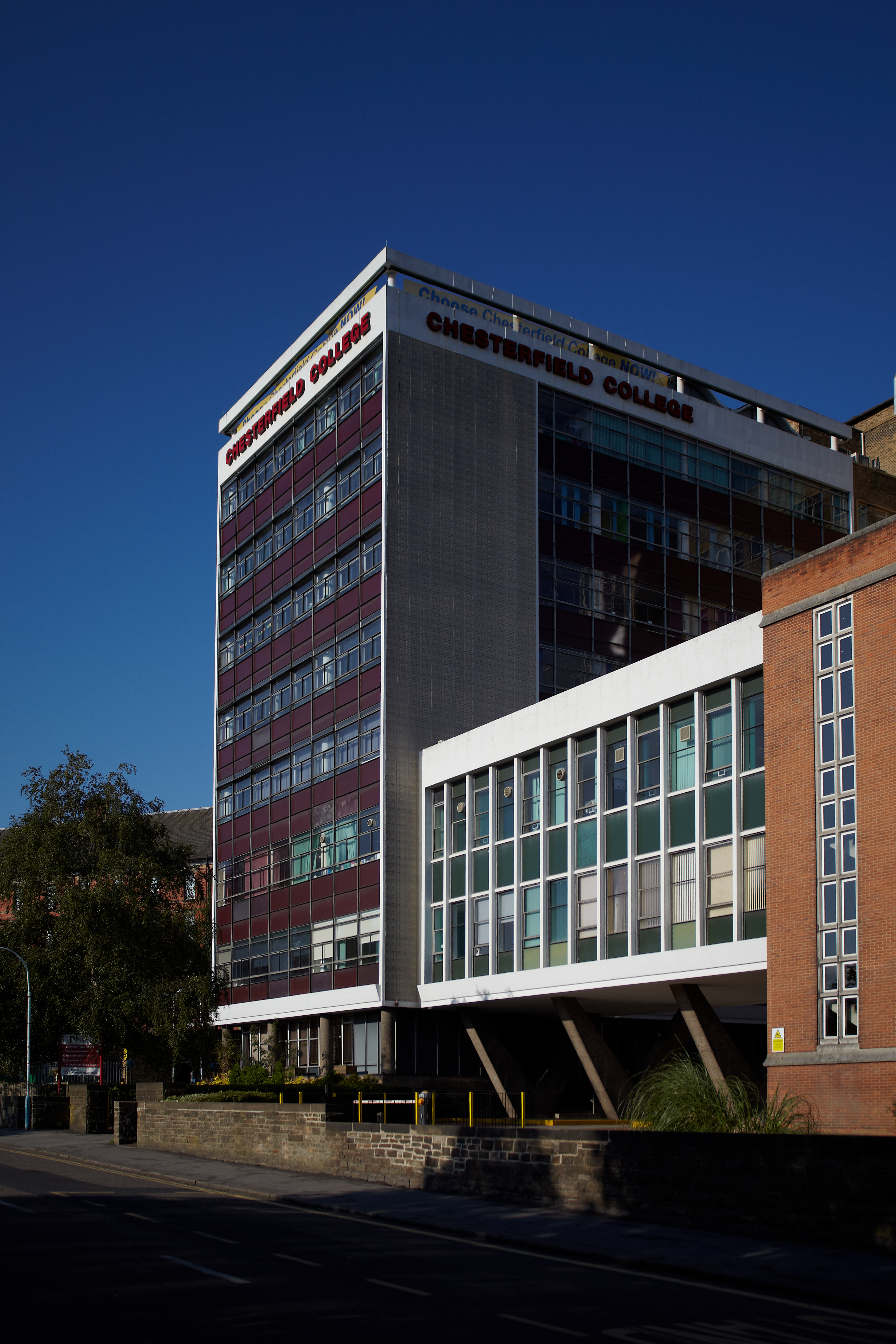 Retirement beckons and only 40 days to go..I will miss the place but more than anything I will miss the people . I have some good memories to take with me of friends past and present , now seeing Ex students kid,s coming to college......going from seeing 40+ people every day to looking at 2 greyhounds will be quite a life change.!